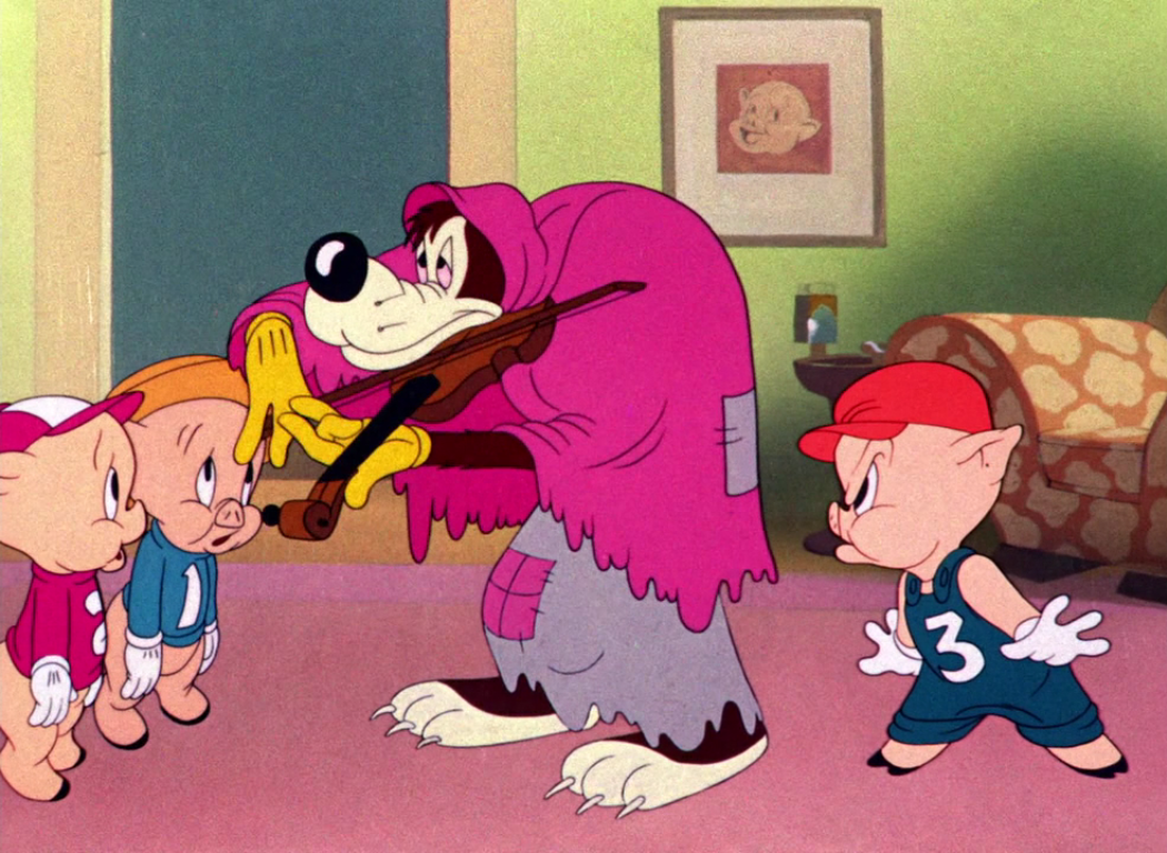 Screenshot from the cartoon Pigs in a Polka (1943)